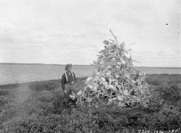 Unidentified man standing next to a cairn of old bleached caribou antlers and skulls, which served to mark the deer crossing place on the Kazan River above Yathkyed Lake, Northwest Territories (now Nunavut), Canada.